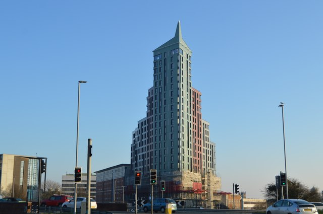 Beckley Point, 78m building in Plymouth, UK